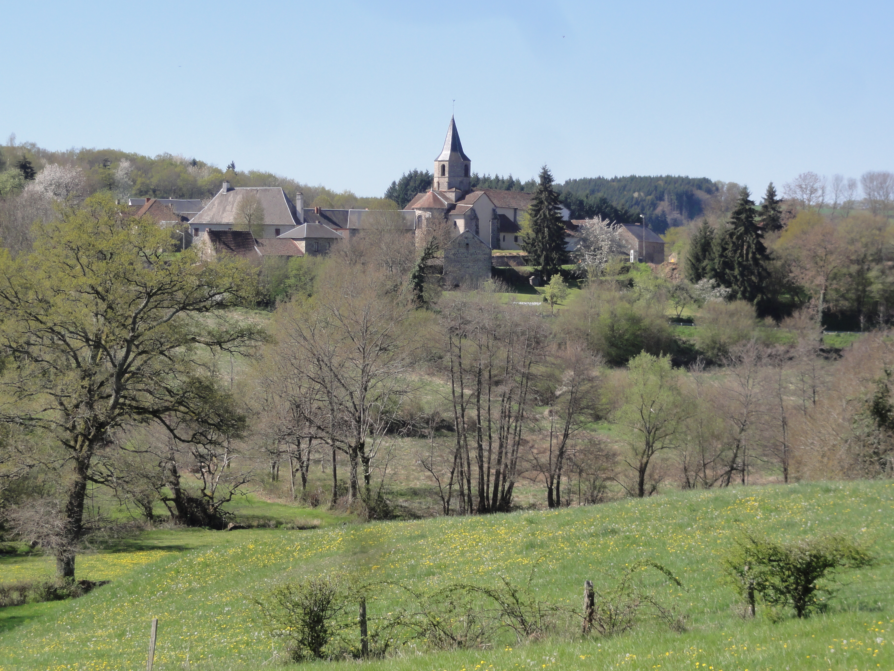 Vergheas (Puy-de-Dôme) vue sur le village